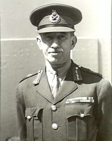 Lieutenant General C.G.N. Miles of the Australian Army in Sydney in circa September 1941